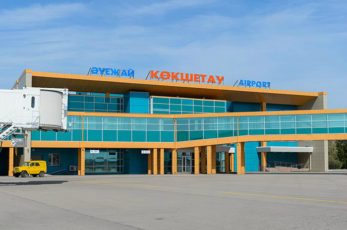 KOV / UACK airport image